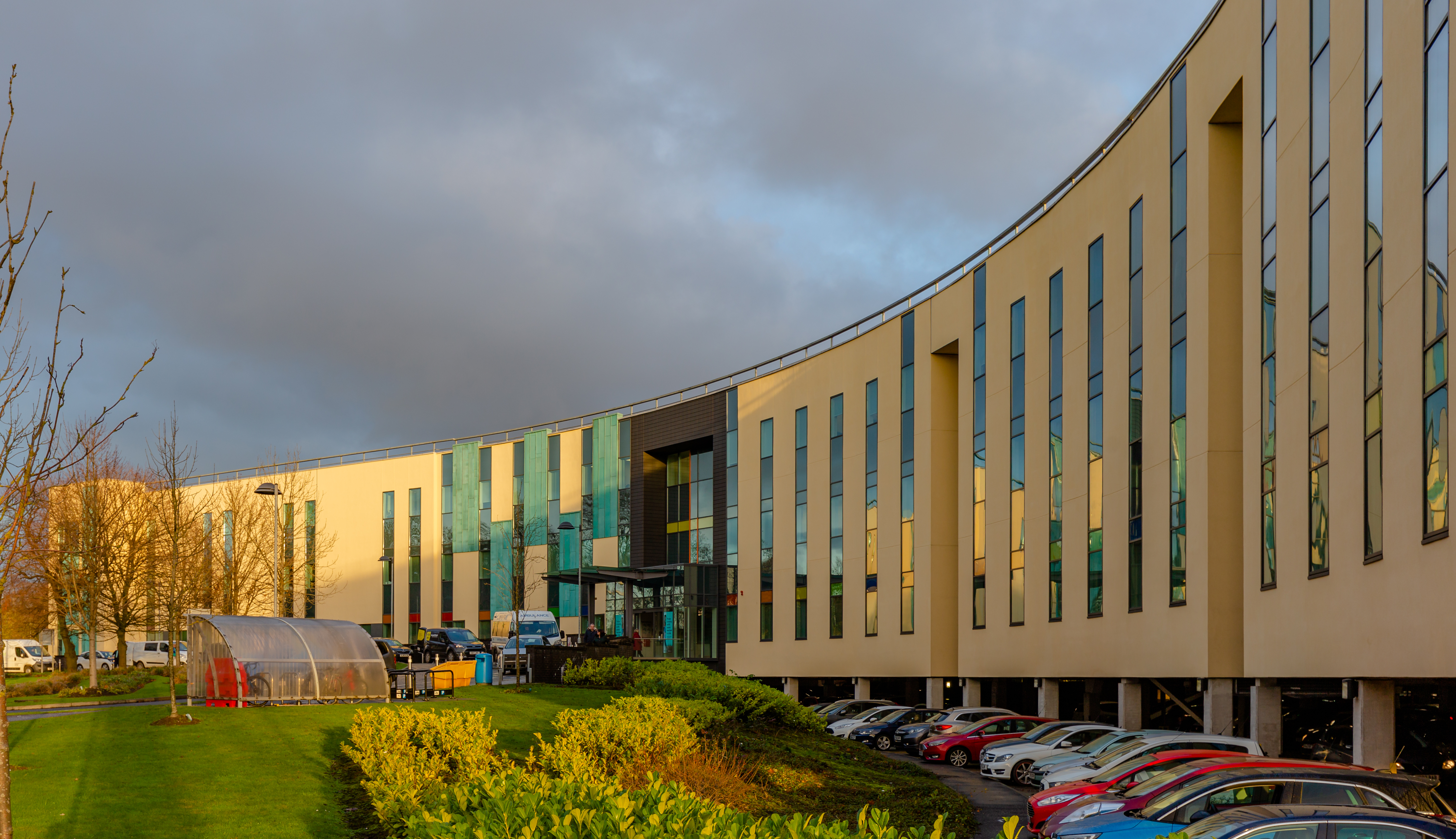 New Victoria Hospital, Glasgow, Scotland